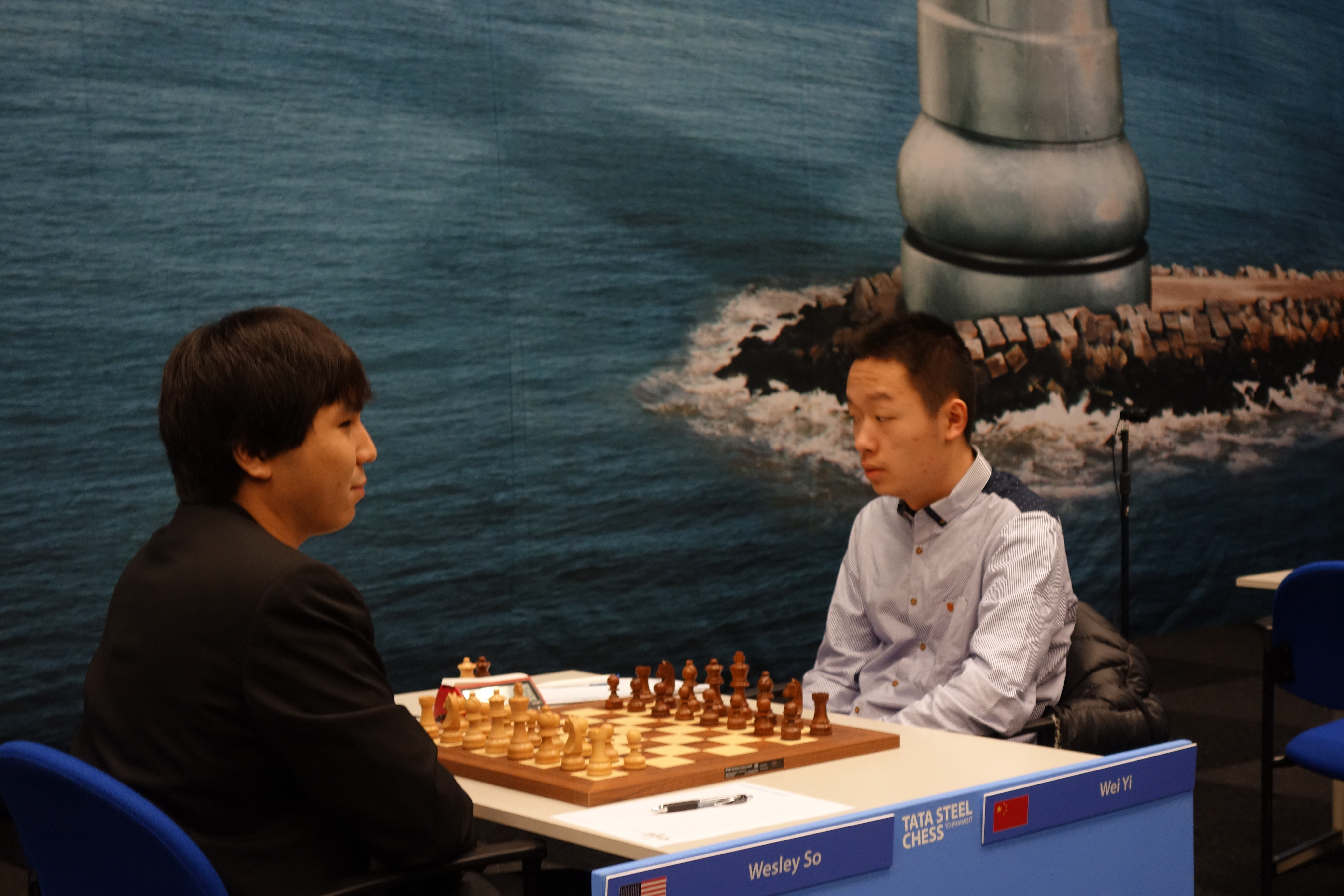 Wesley So vs. Wei Yi - Tata Steel Chess Tournament 2017, Wijk aan Zee (the Netherlands), 28 January 2017